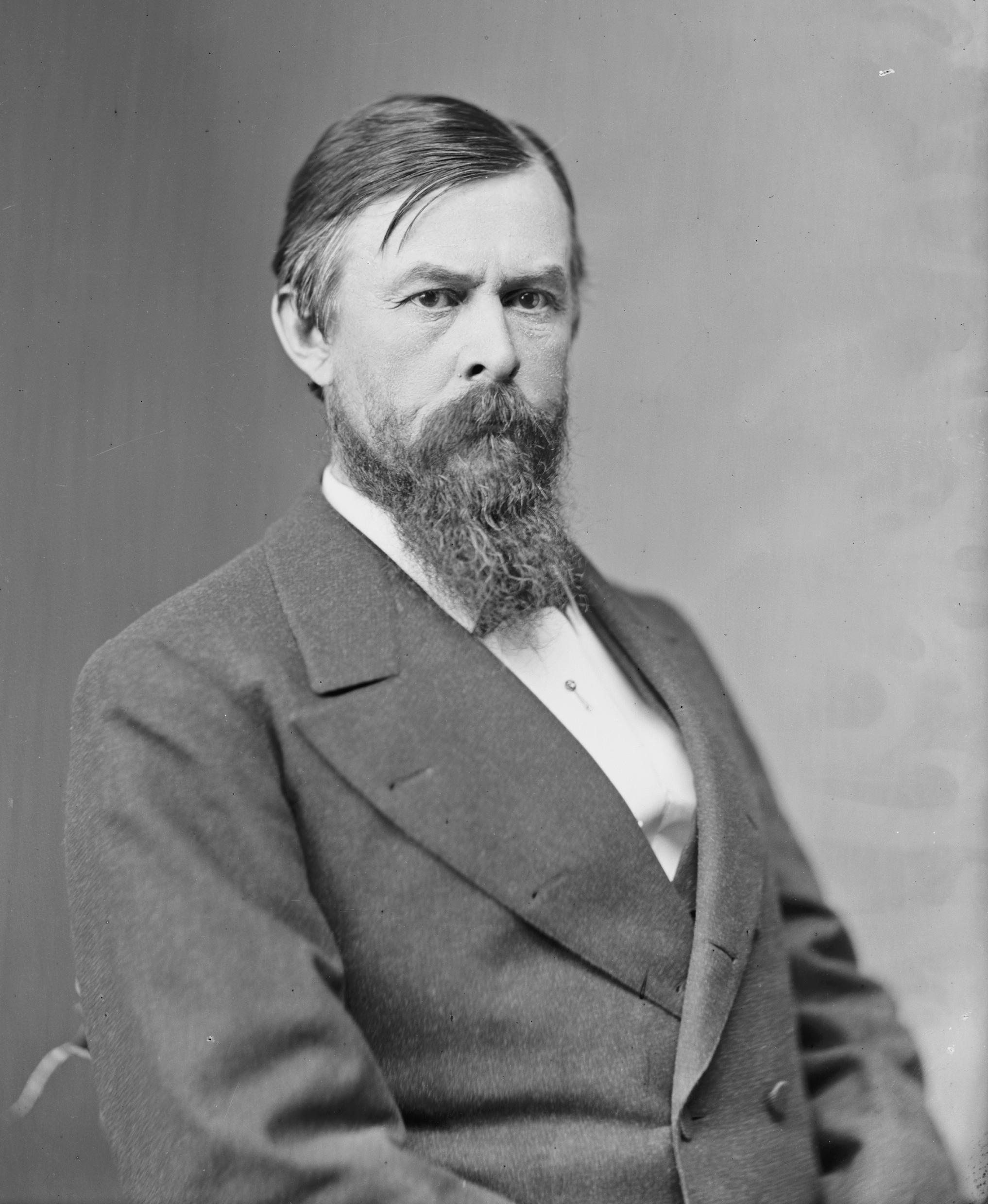 Green Clay Smith. Library of Congress description: "Smith, Hon. Green Clay of Ky. 2nd Lt in 1st Regt. Kentucky Vol. Inf. June 9, 1846. Colonel of 4th Regt. Kentucky Vol Cavalry. April 4, 1862 Brevetted Maj General, March 13, 1865"